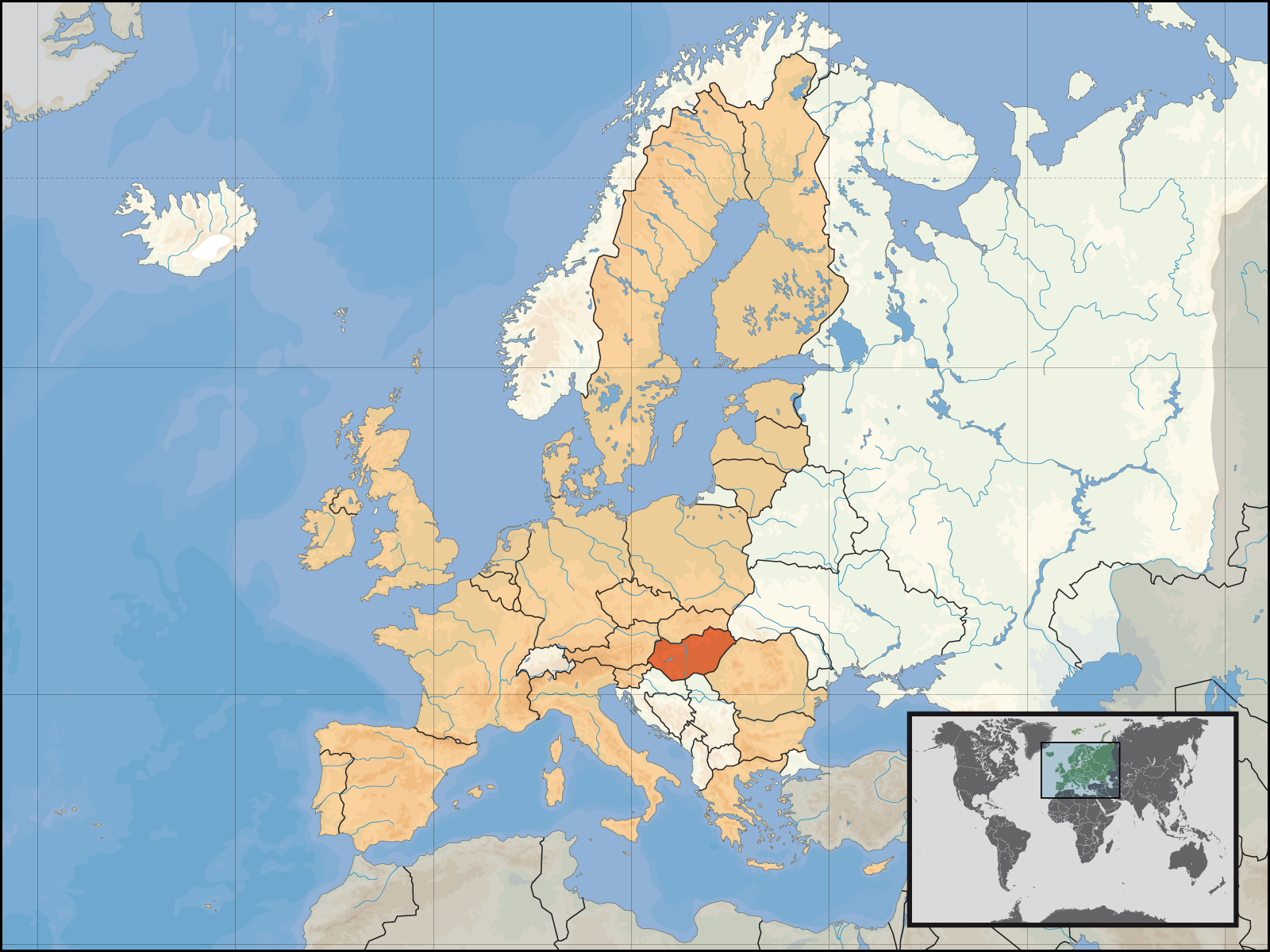 Location of Hungary within Europe and the European Union on the 1st of January 2007.